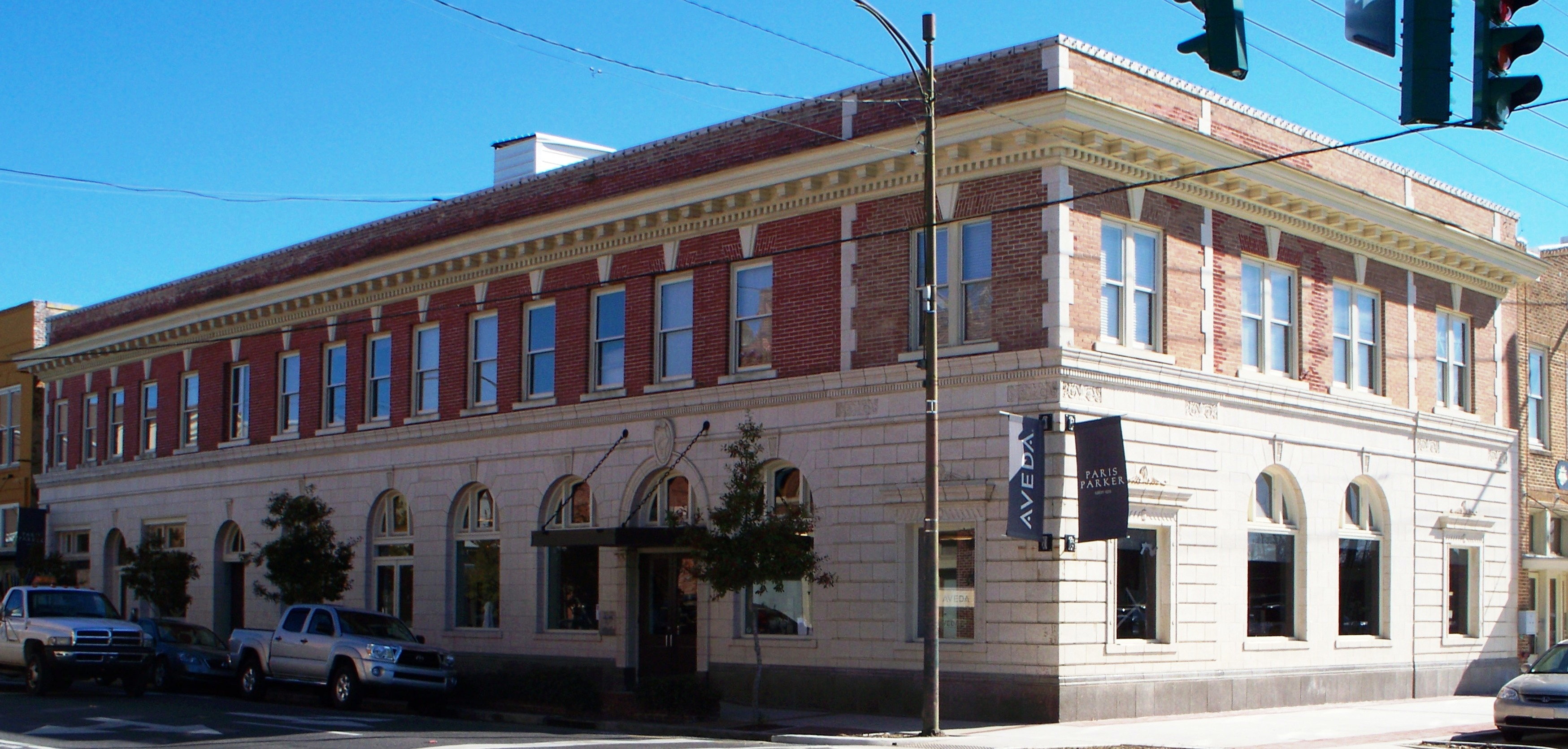 Old Guaranty Bank Building now Neill Corporation Paris Parker Aveda Salon in Hammond, Louisiana, 2010Jan15